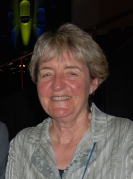 Dr Jan Wright in 2007